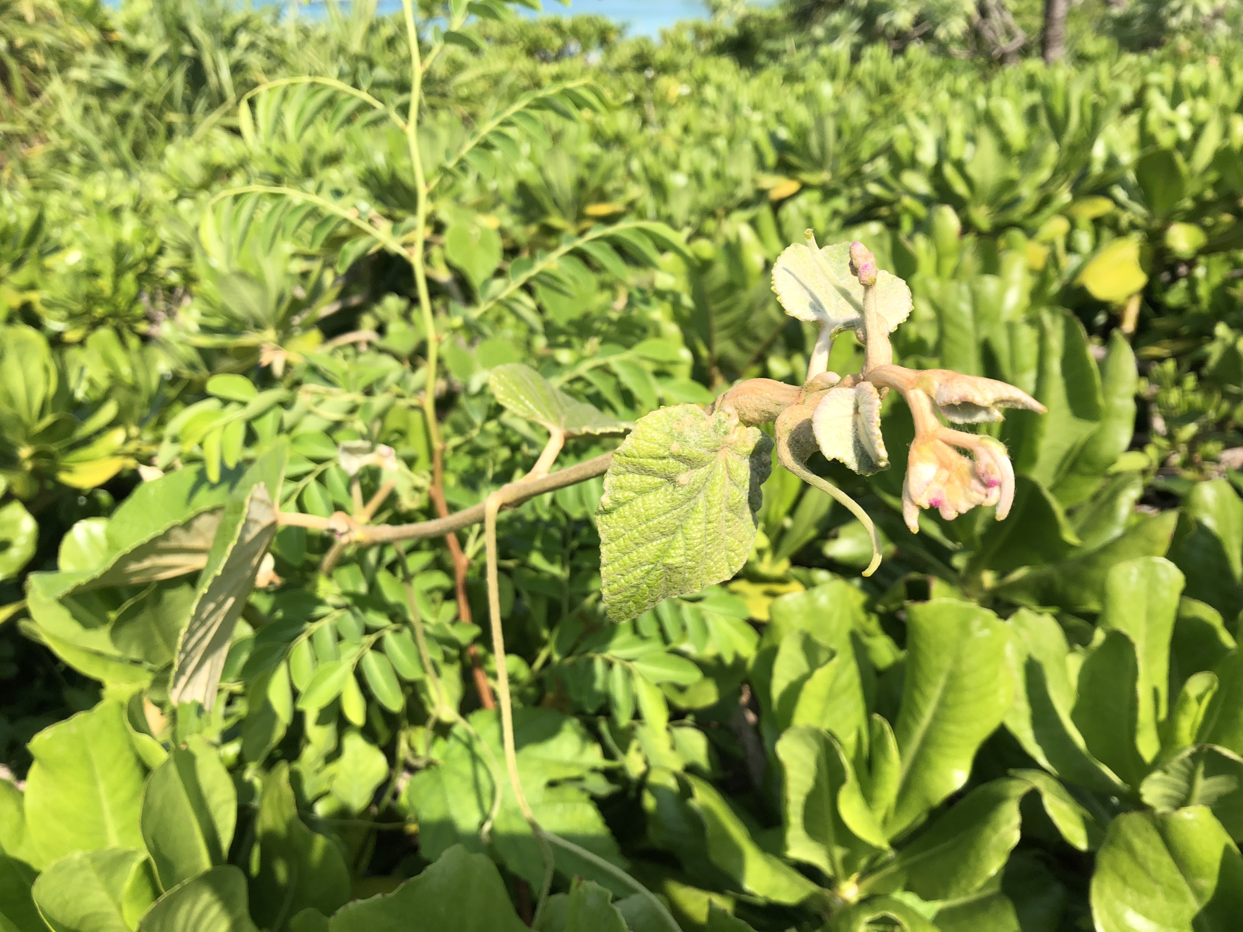 This is a picture of the Japanese plant “Ryukyu-ganebu”